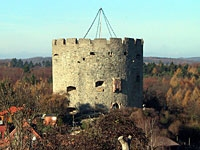 Circular bastion in the former Principality of Lichtenberg.